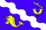 Flag of Gżira, Malta